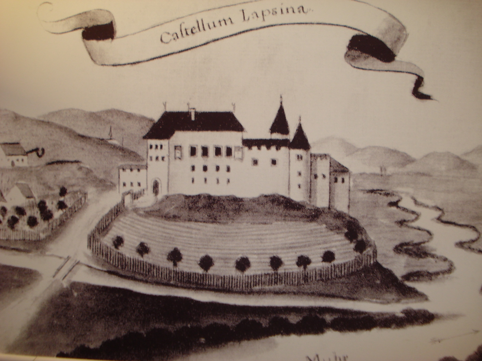 Lapšina Castle (Medjimurje County, Croatia) - ruined